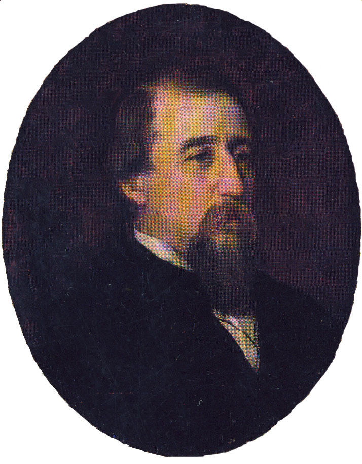 Leo Mechelin, oil painting